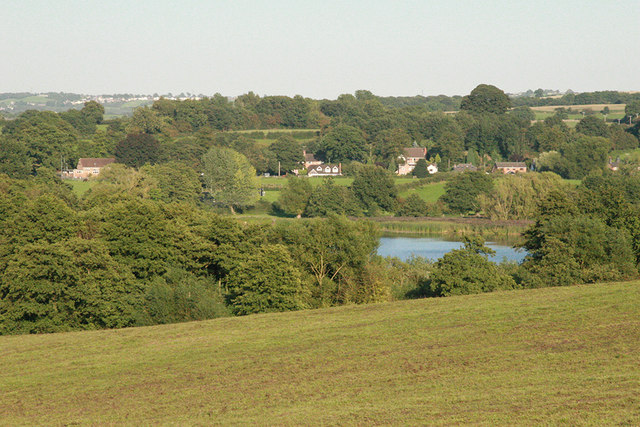 Betley Mere. Betley Mere is a site of Special Scientific Interest (SSSI) and is one of the few natural standing waters in Staffordshire and occupies a shallow valley in glacial deposits overlying Triassic strata bounded on three sides by extensive peat deposits on which a very diverse range of vegetation types have developed.